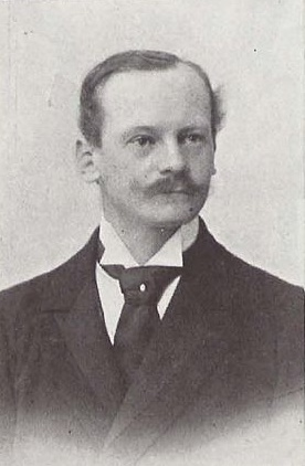 From the magazine "Berliner Leben", issue 9 (1901).